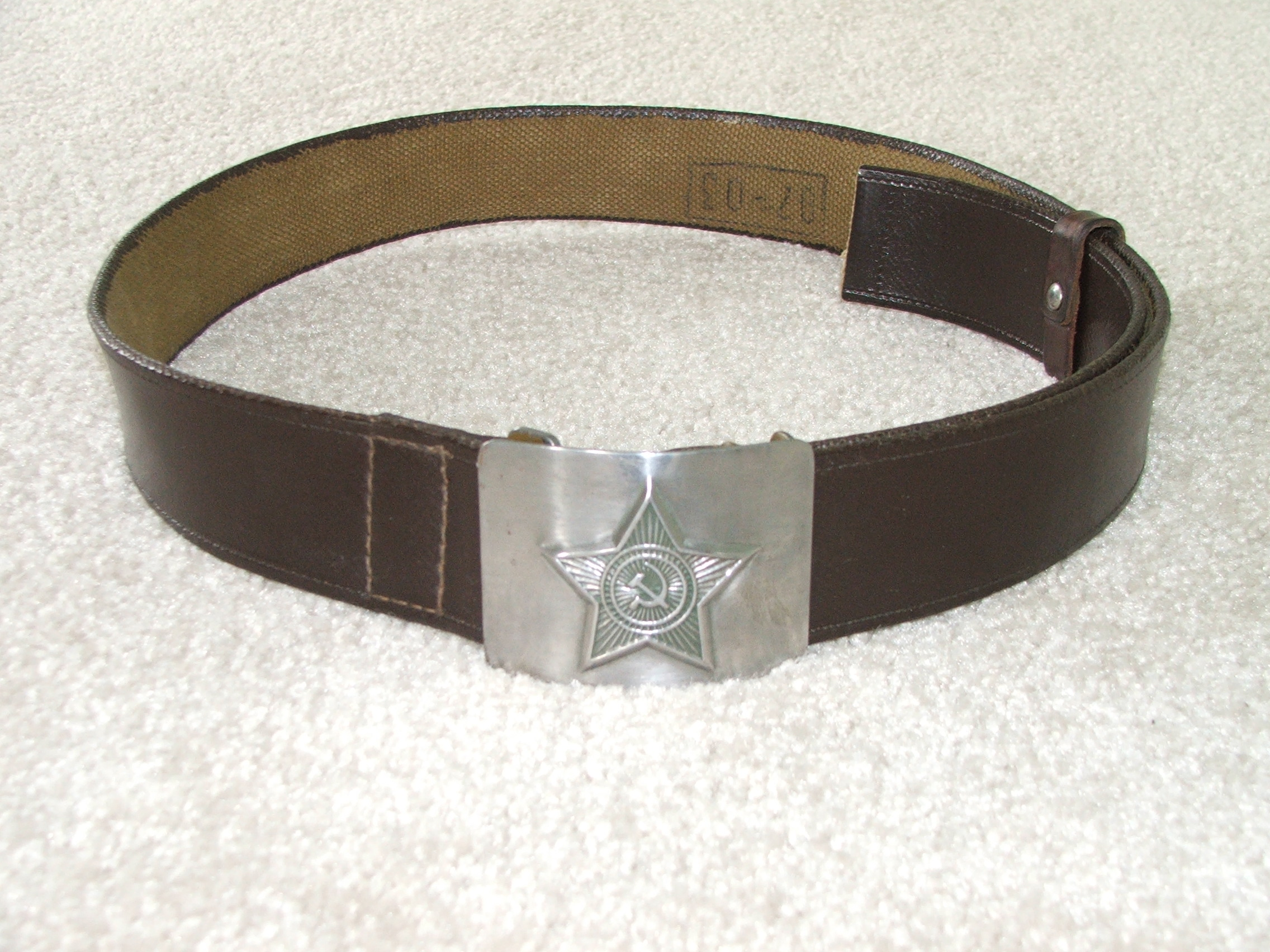 Belt of soldier of the Soviet Army.